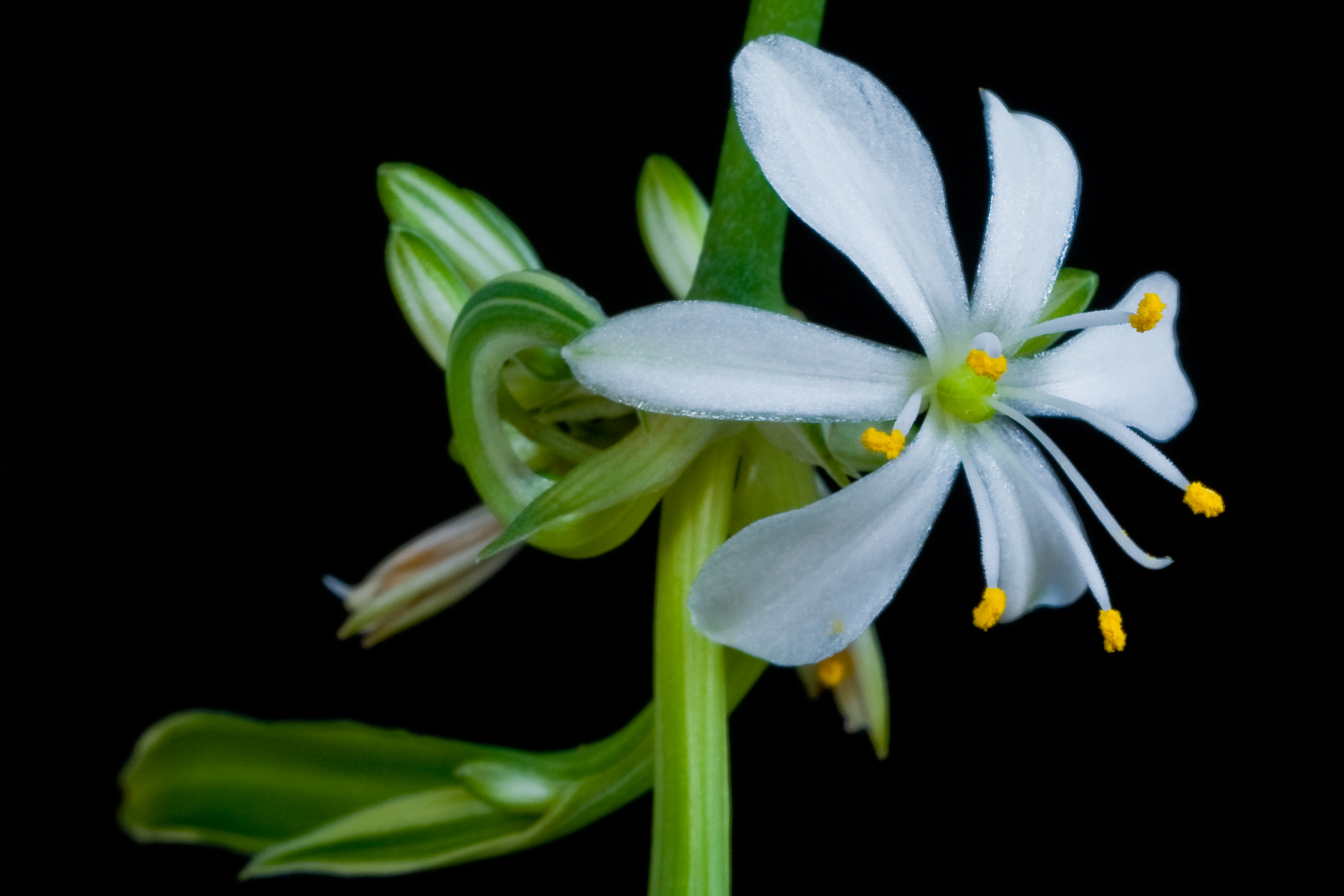 Chlorophitum flower